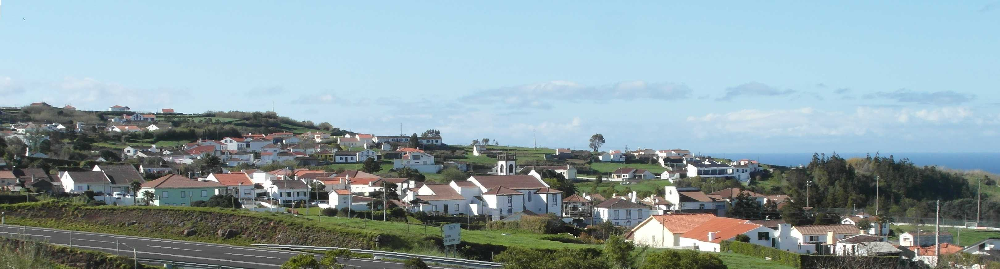 Fazenda